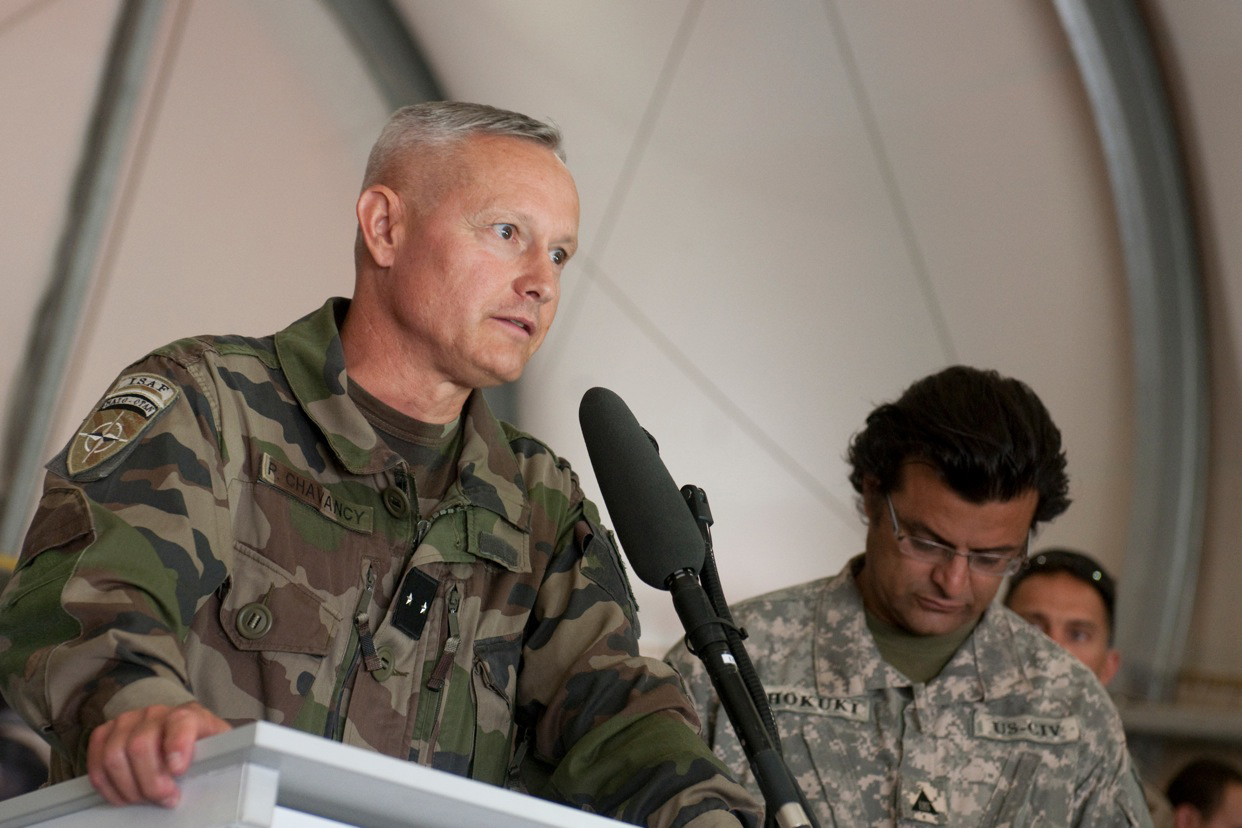 Celebrating Eid at FOB Morales-Frazier. Original caption: "French Maj. Gen. Pierre Chavancy, Task Force La Fayette commander, addresses lunchtime Eid al-Fitr guests on Forward Operating Base Morales-Frazier Sept. 13 before the meal, cohosted by TF La Fayette and Kapisa Provincial Reconstruction Team. Eid, a three-day celebration marking the end of Ramadan, holds as much, if not more, significance for Muslims as Christmas celebrations do in other societies. (Photo by U.S. Air Force Tech. Sgt. Joe Laws, Kapisa Provincial Reconstruction Team Public Affairs)" VIRIN=100913-F-3333U-001